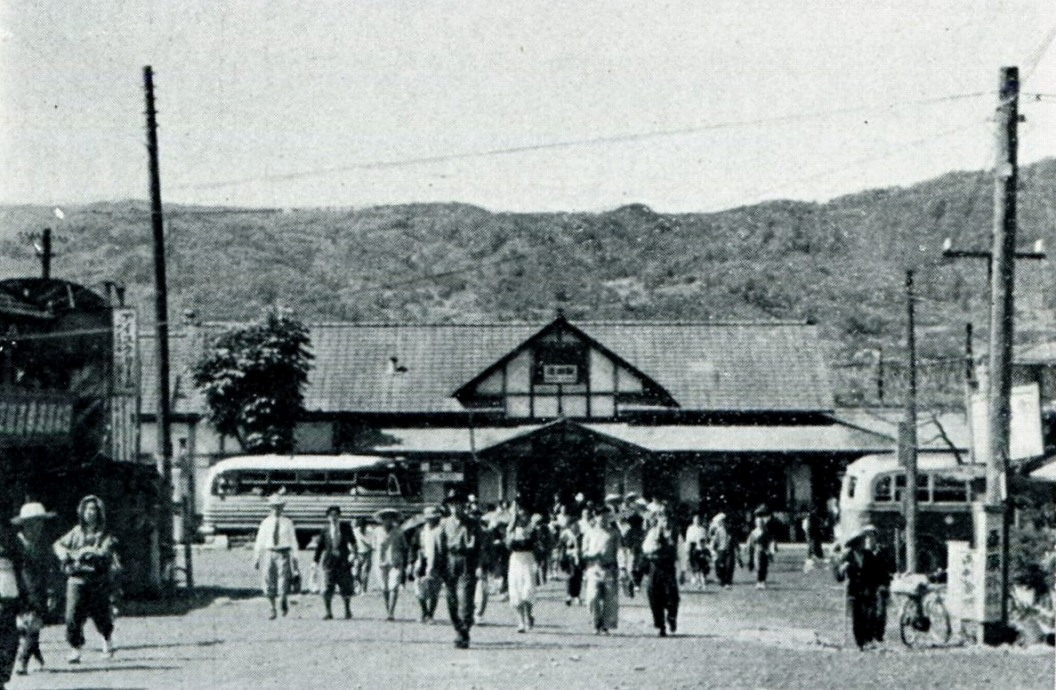 Numata Station on the Joetsu Line in Gunma Prefecture, Japan